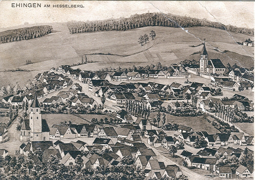 Postcard, undated ( ca.1914 ). Title: "Ehingen am Hesselberg"